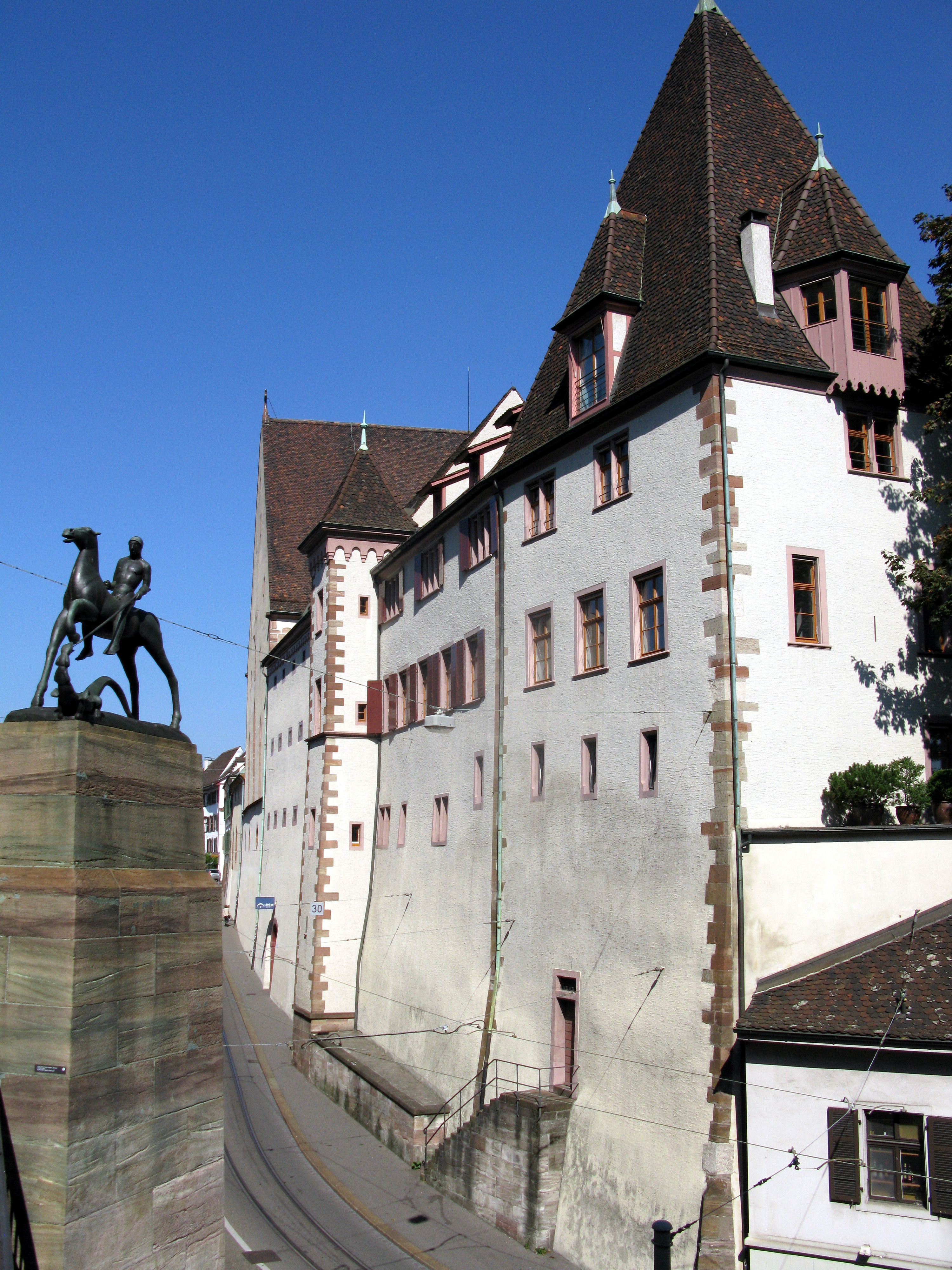 Lohnhof, view from southwest with sculpture of George from Carl Nathan Burkhardt